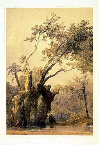 Authors: David Roberts & Louis Haghe